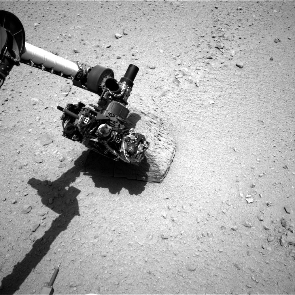 This image shows the robotic arm of NASA's Mars rover Curiosity with the first rock touched by an instrument on the arm. The rover's right Navigation Camera (Navcam) took this image during the 46th Martian day, or sol, of the mission (Sept. 22, 2012). On that sol, the rover placed the Alpha Particle X-Ray Spectrometer (APXS) instrument onto the rock to assess what chemical elements were present in the rock. The rock is named "Jake Matijevic" in commemoration of influential Mars-rover engineer Jacob Matijevic (1947-2012).